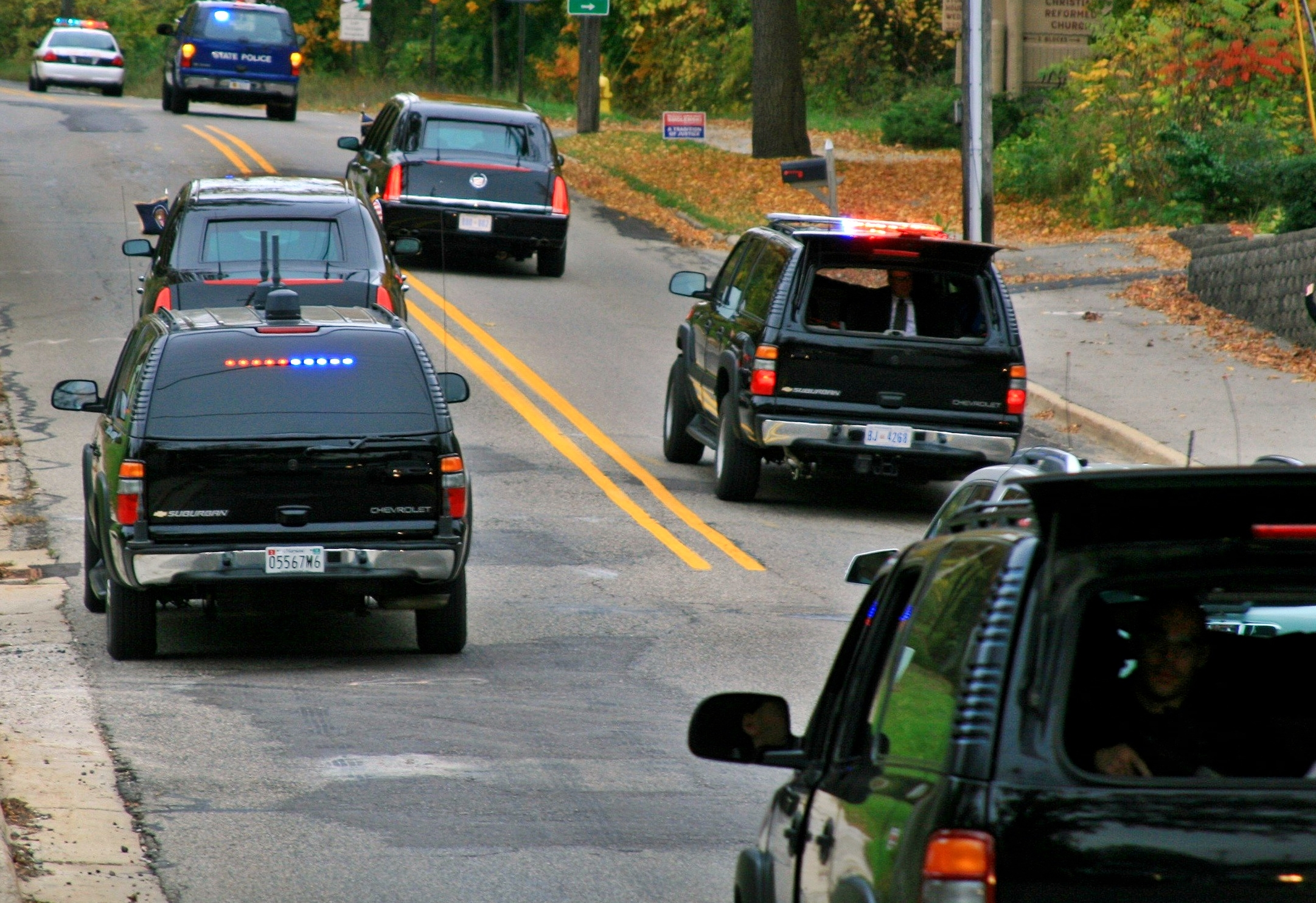 George Bush motorcade on Ada Drive going to Dick DeVos's house after having lunch in downtown Ada, Michigan at Schnitz Grill above the Ada Bike Shop. Vehicle in bottom right carries the U.S. Secret Service Counter Assault Team (CAT).